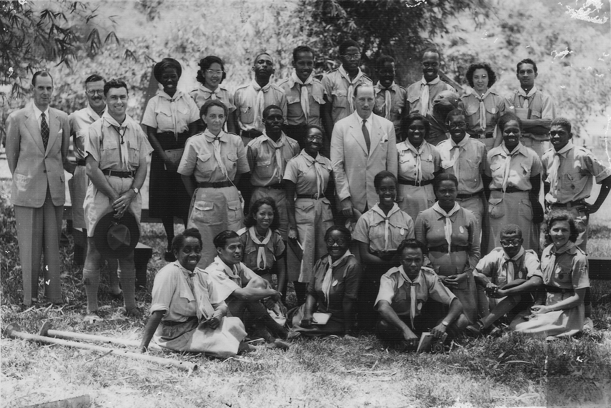 British Guiana Scout Leaders April 1954